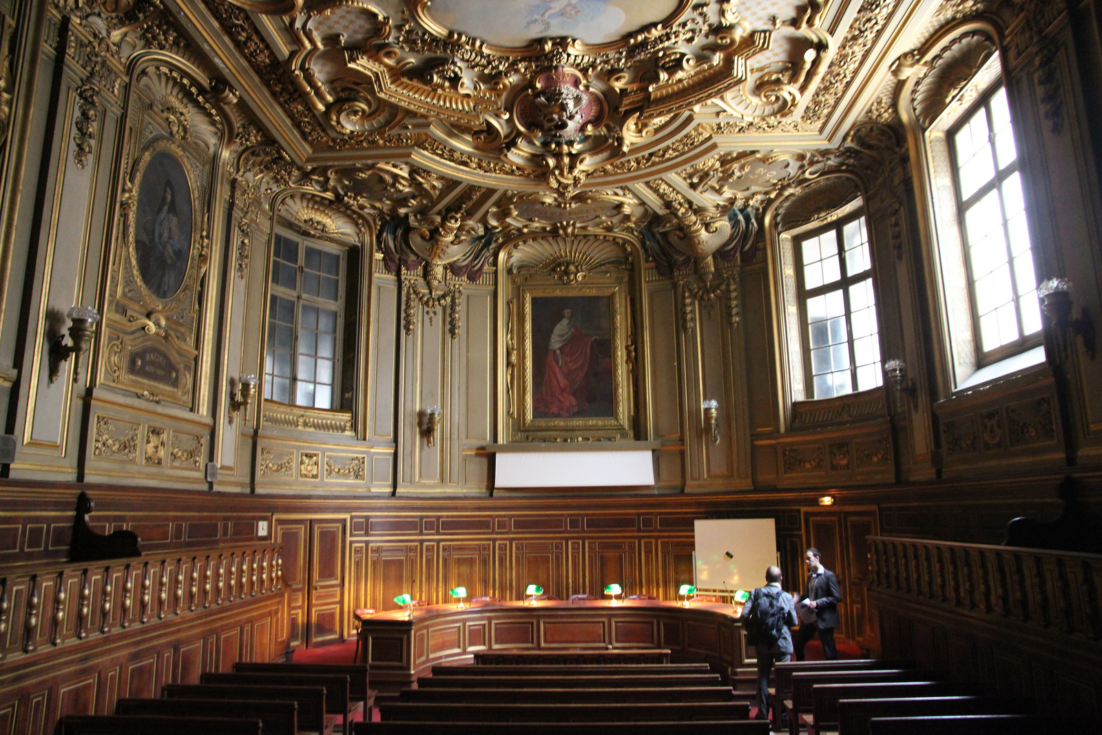 Sala Louis Liard